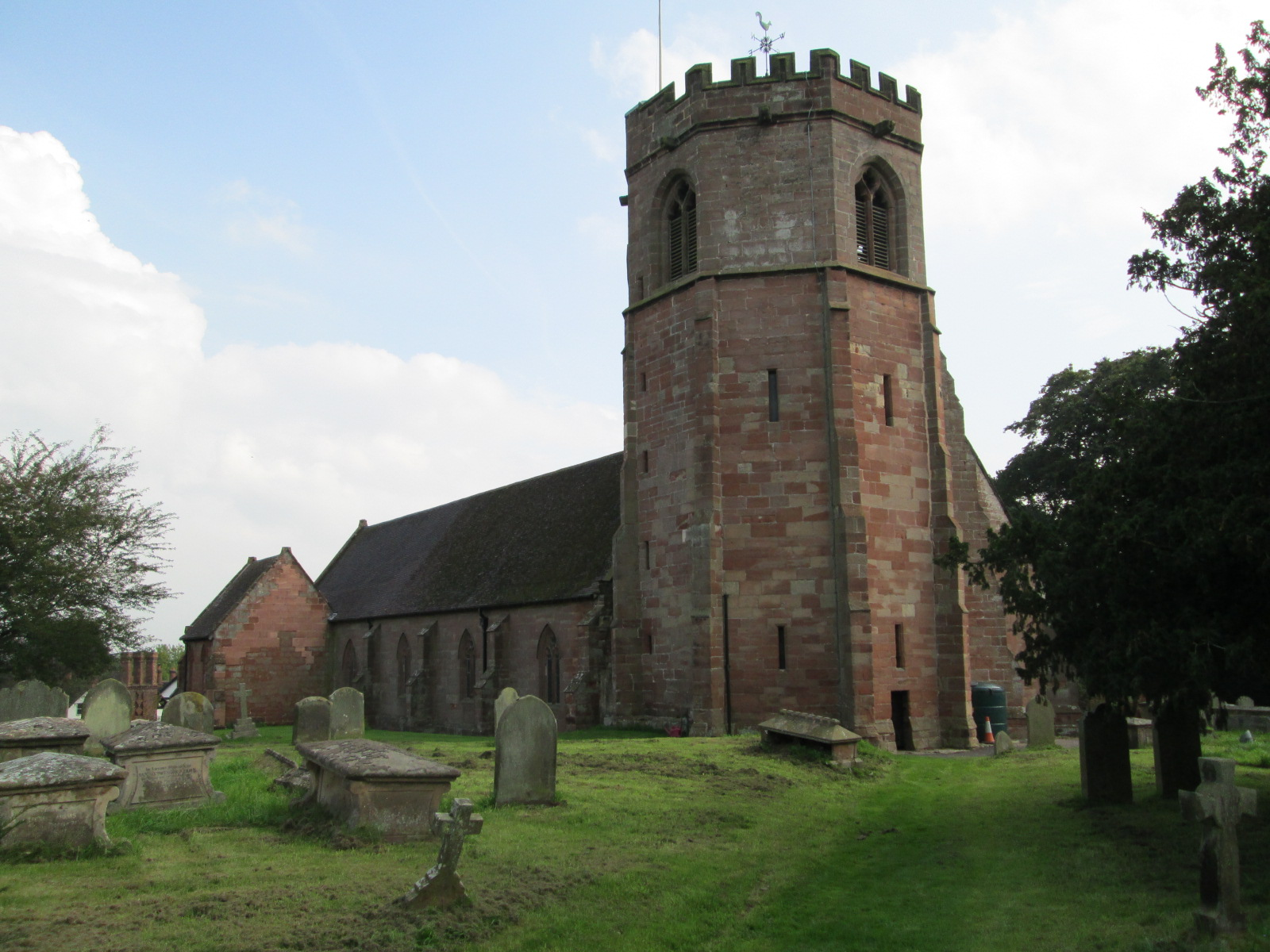 St Luke's Church, Hodnet, Shropshire. Viewed from the north-west.